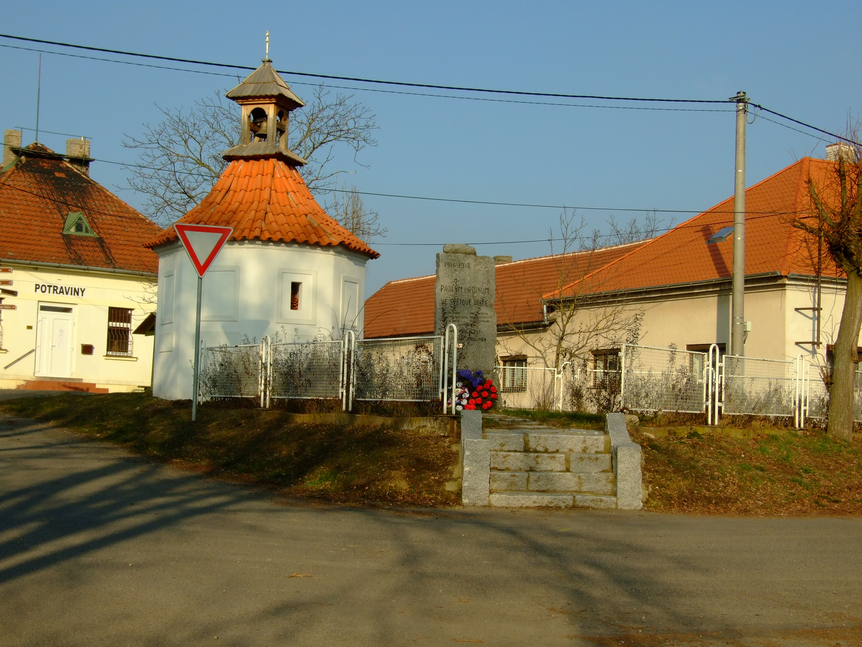 A chapel and World War I memorial in Roblín village, Bohemian Karst protected landscape area, Prague-West District, Central Bohemian Region, CZ